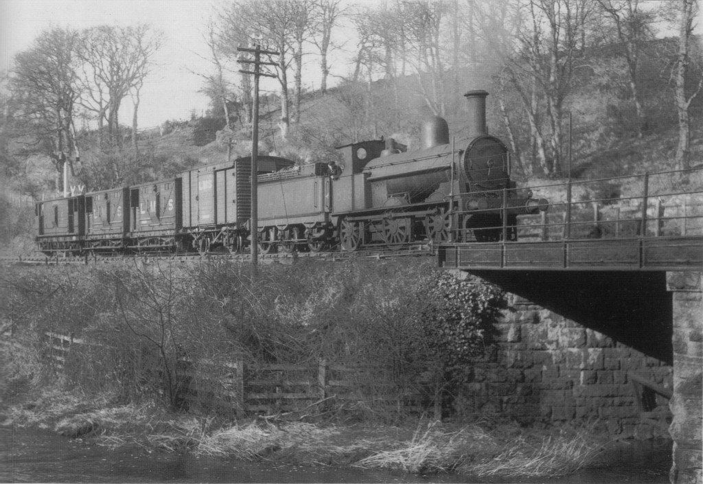 Ex-LNWR 0-6-0 with a goods train approaching Llangefni station from the north